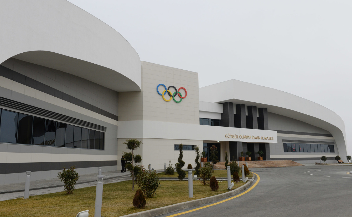 Ilham Aliyev attended the opening of the Goygol Olympic Sports Center